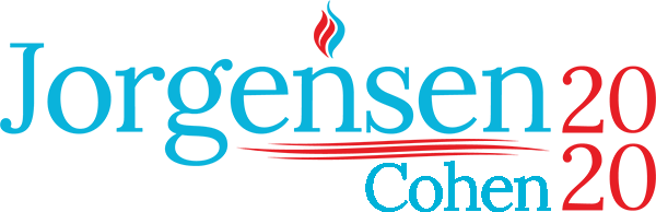 Official logo for Jo Jorgensen's 2020 presidential campaign